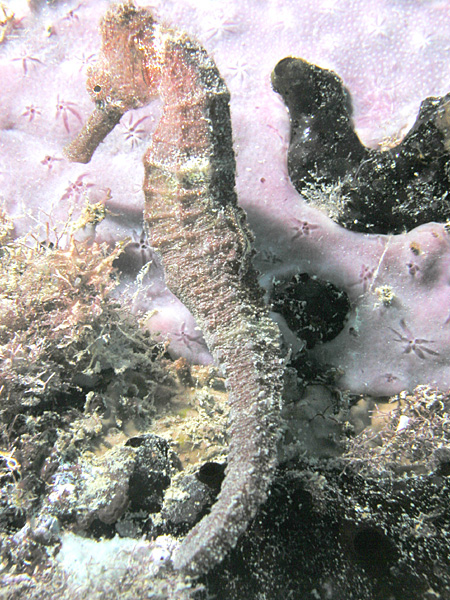 Seahorse, St. Croix, Virgin Islands. Image taken by Clark Anderson/Aquaimages.